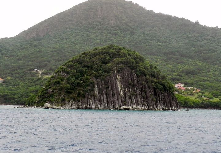 Orgues ou colonnes basaltiques du Pain de Sucre sur l'île de Terre-de-Haut (archipel des Saintes) Antilles françaises.